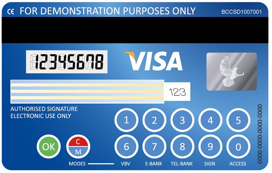 visa codesure card, hardware by SmartDisplayer and software by EMUE.